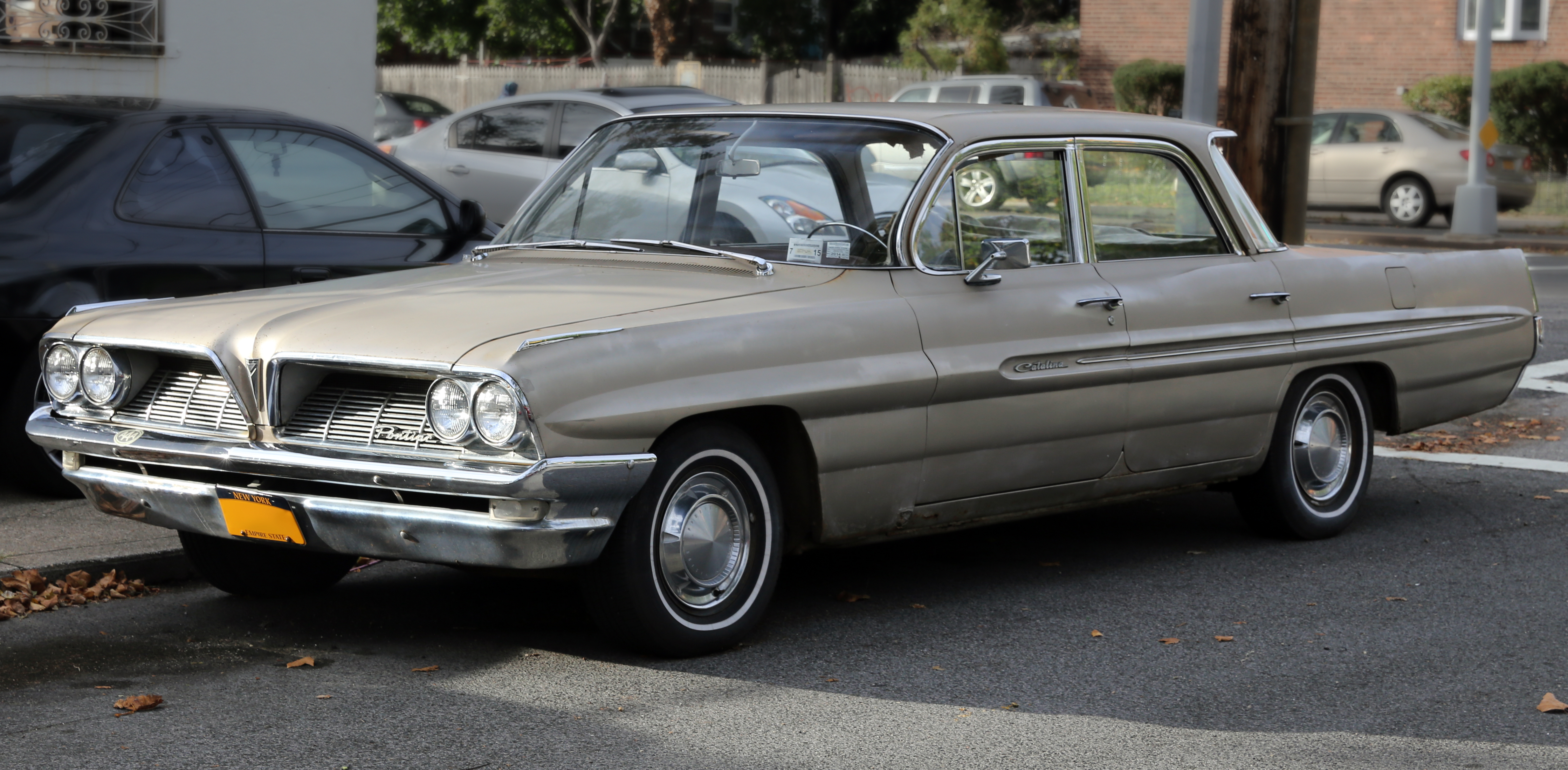 1961 Pontiac Catalina 4-door sedan.